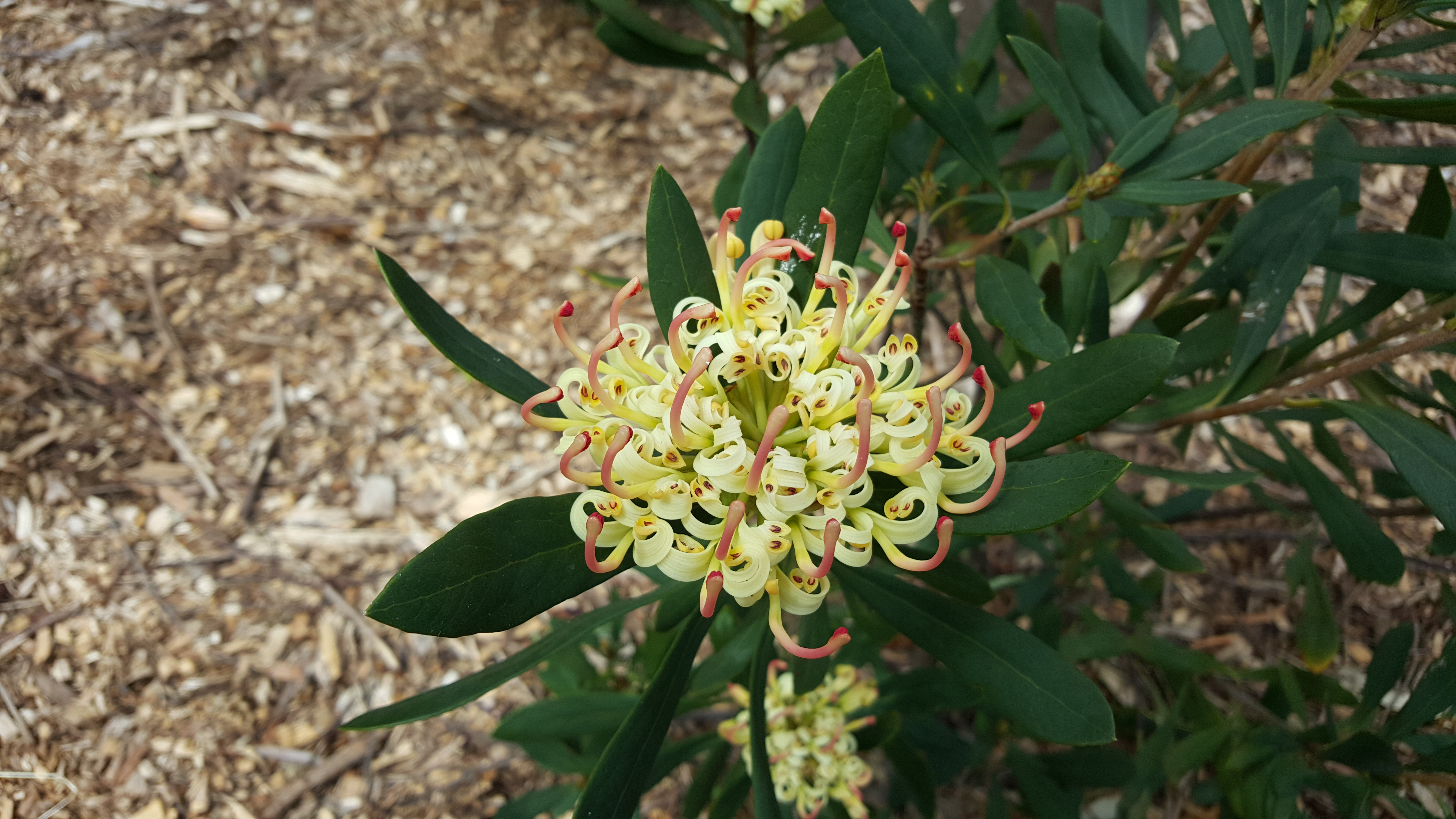 Telopea truncata "St marys Sunrise"